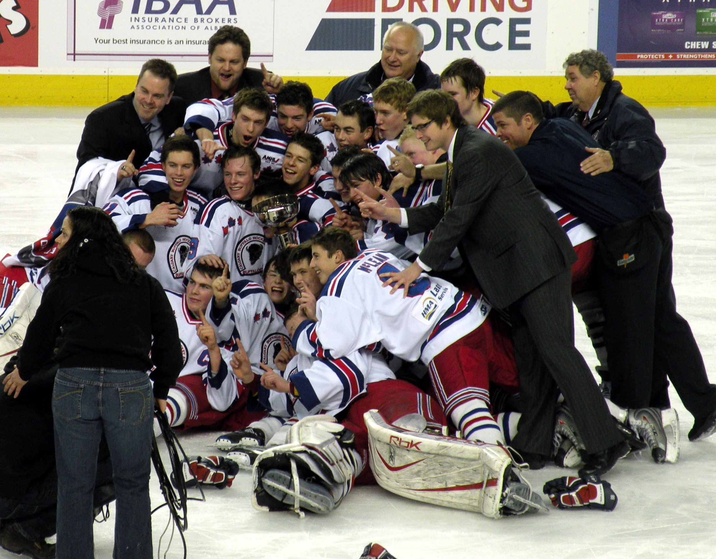 The Calgary Buffaloes celebrate their championship at the Mac's AAA midget hockey tournament after defeating the Vancouver Northwest Giants 6–5 in double overtime at the Pengrowth Saddledome in Calgary, Alberta, Canada.